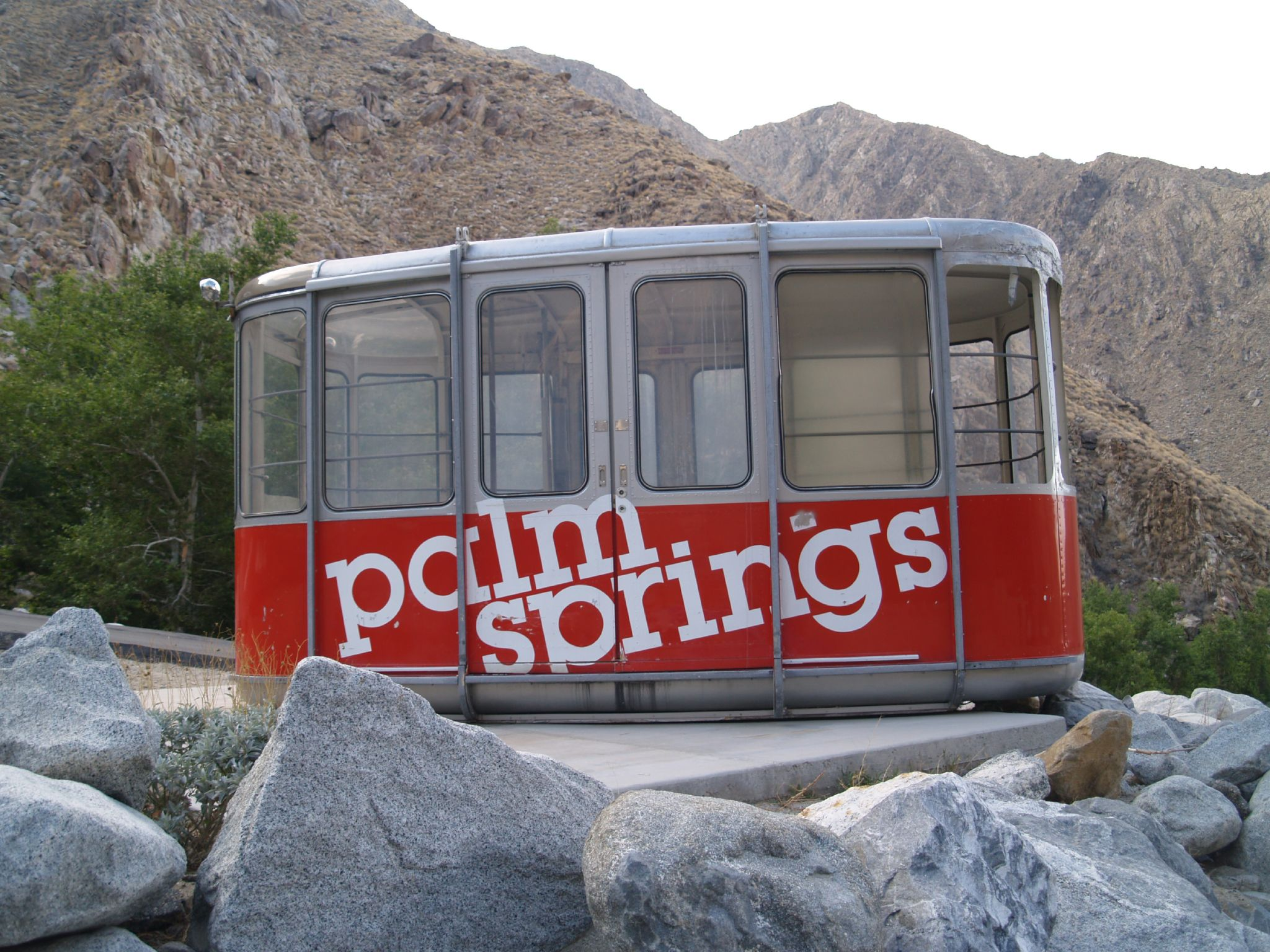 Palm Springs 1963 Tram Car as seen on May 5, 2007